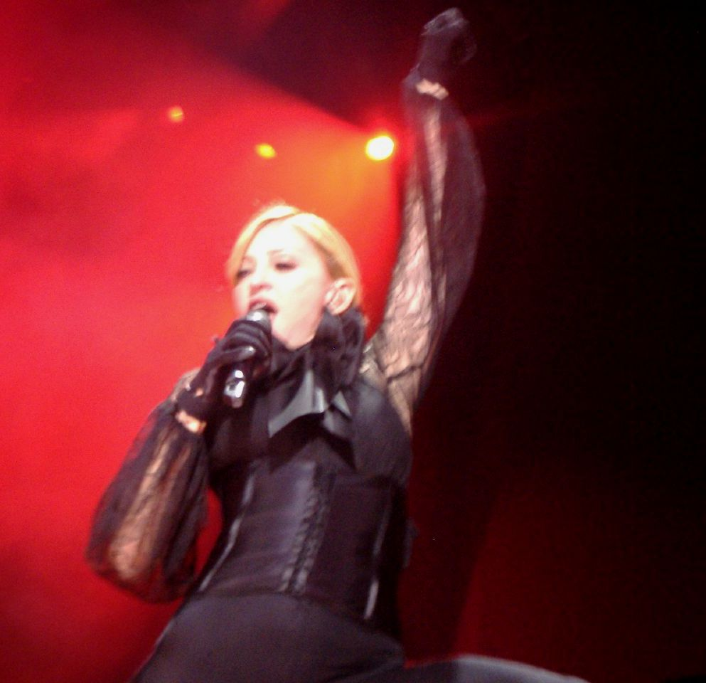 Madonna performing "Like a Virgin" on her 2006 Confessions Tour